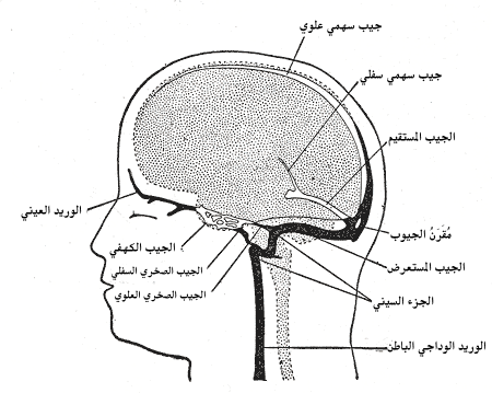 Cranial sinuses, with black pointer lines